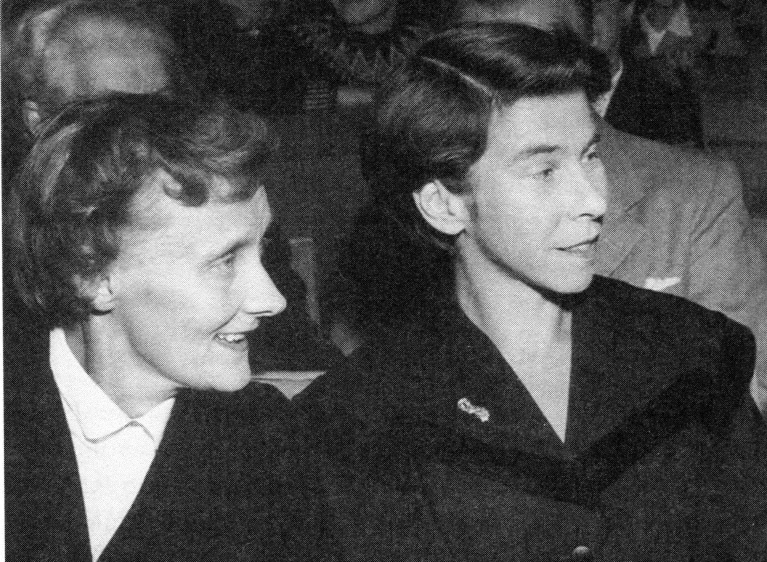 Swedish author Astrid Lindgren together with Finnish author Tove Jansson in Stockholm in 1958.